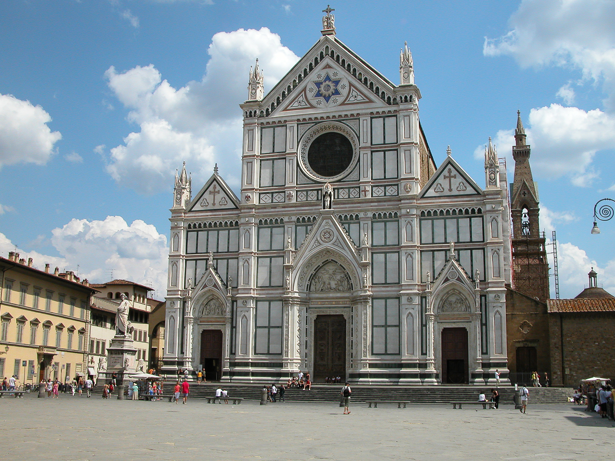 Santa Croce church, Florence